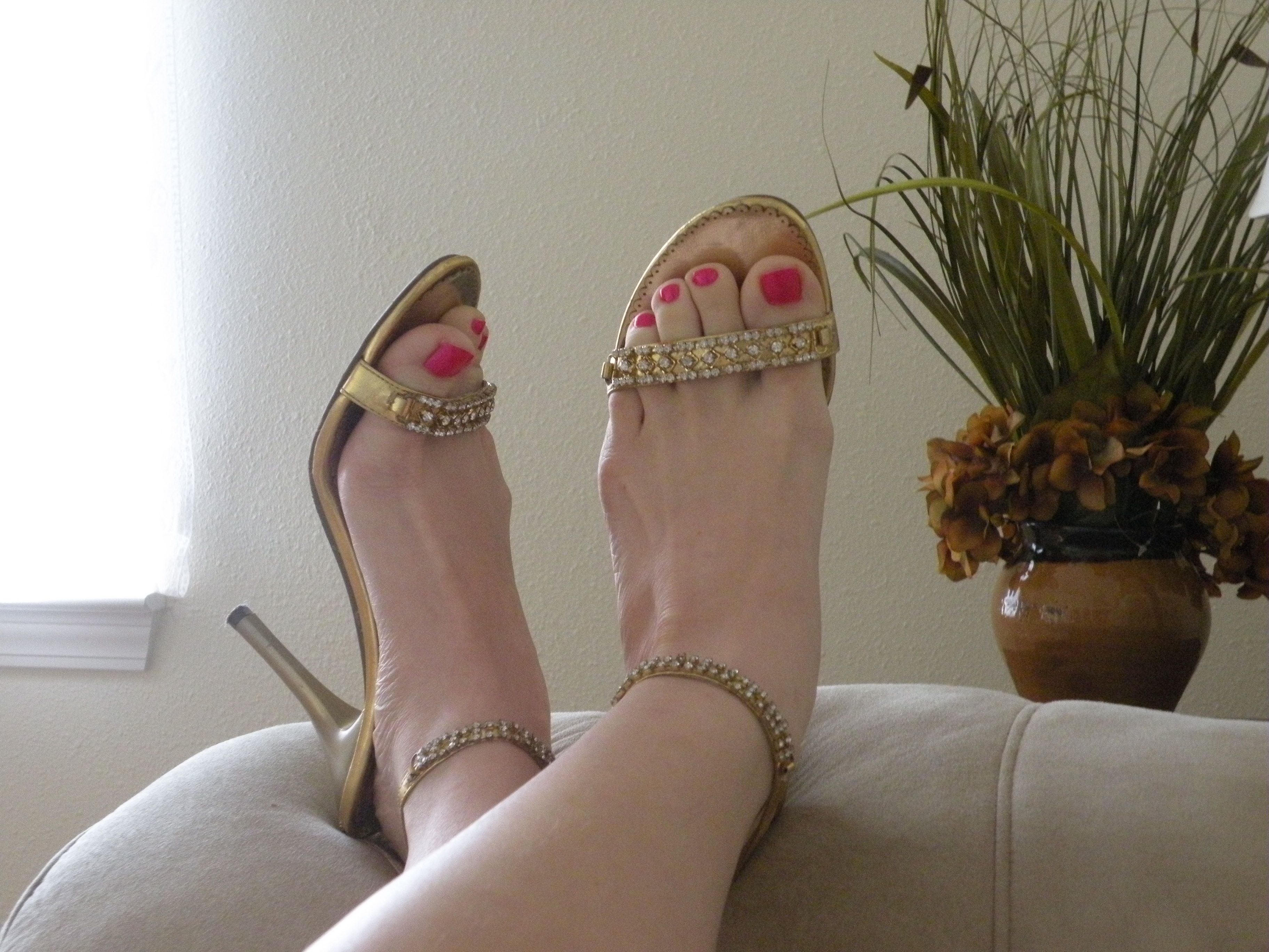 A pair of feet with pink toenails and gold sandals.